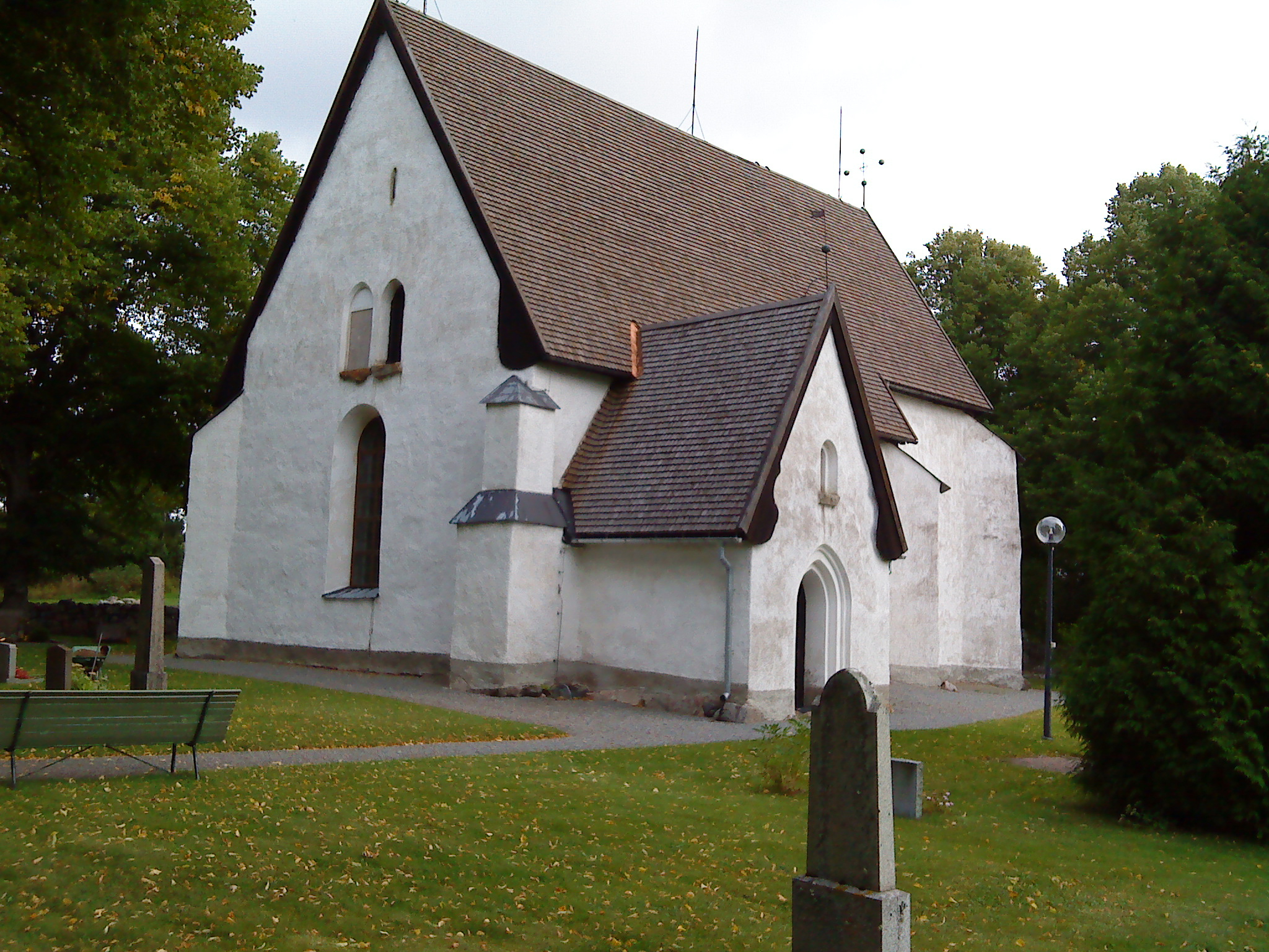 Vasteraker church, Uppland, Sweden